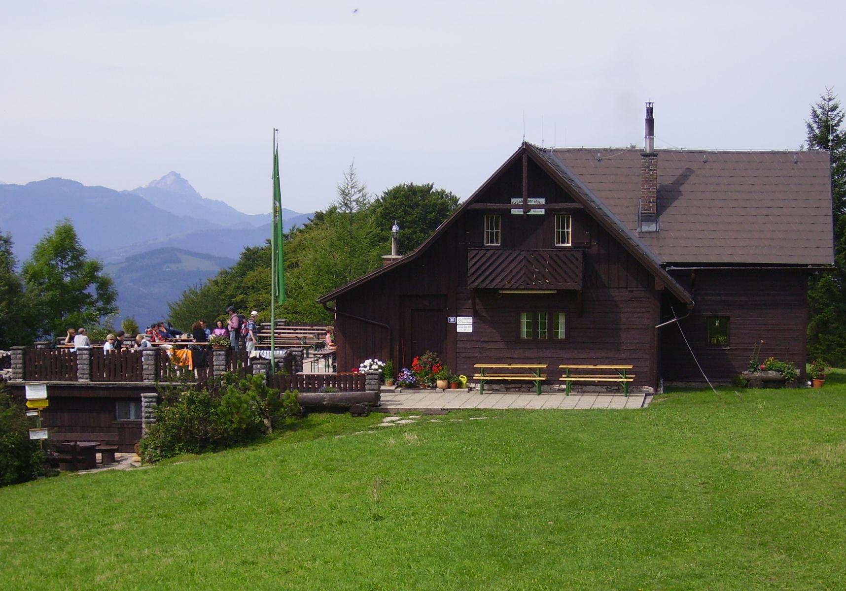 Mountain refuge "Grünburger Hütte" in the Upper-Austrian Alps near Steinbach an der Steyr. Mount Traunstein in the background on the left.